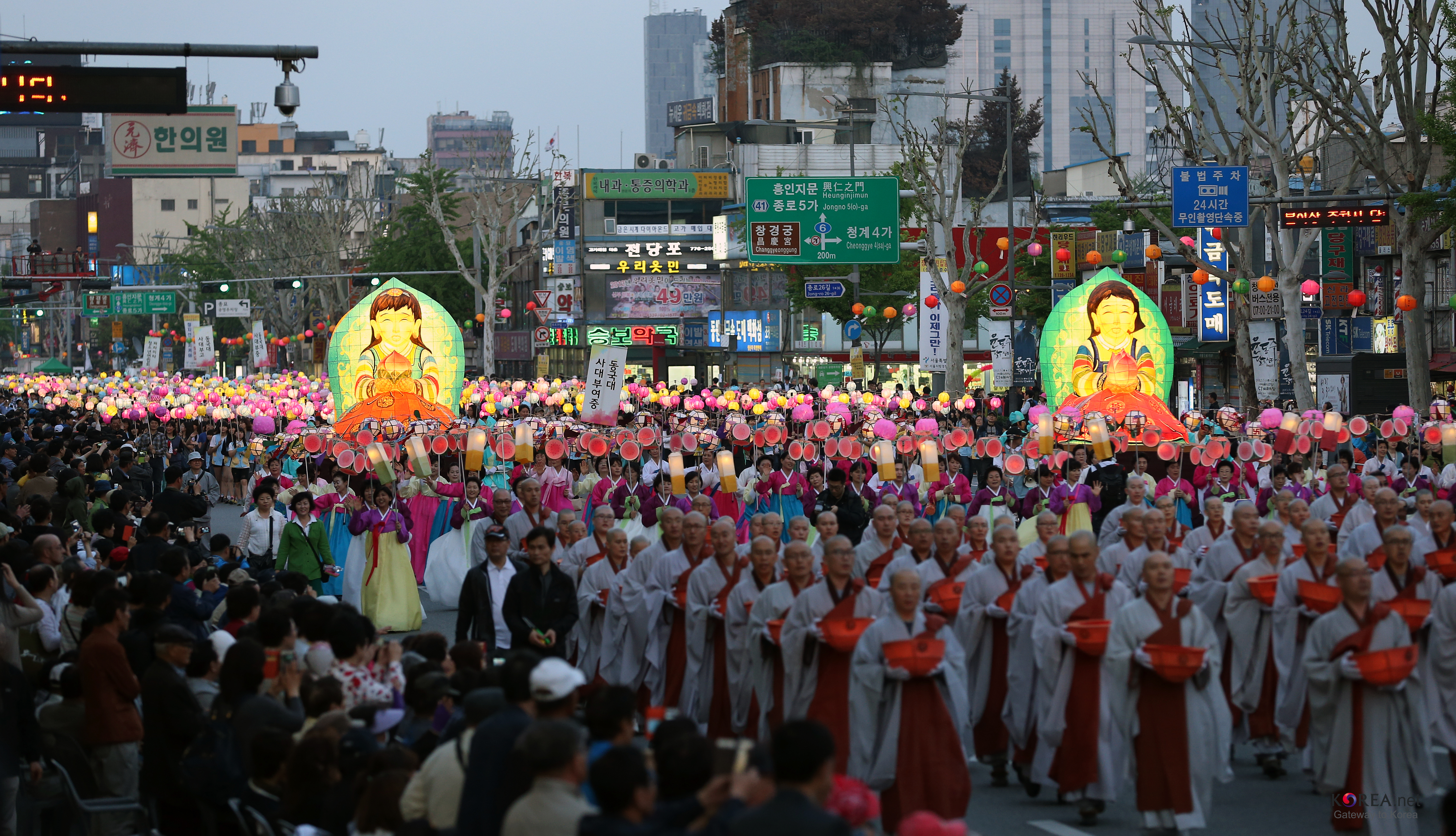 Yeon Deung Hoe (Lotus Lantern Festival) Jongno-gu, Seoul 2013.05.11. -Related Article- "Lotus lanterns light up Seoul night" Ministry of Culture, Sports and Tourism Korean Culture and Information Service Newsroom Jeon Han 연등회 불기2557년 부처님오신 날 맞이 연등회(중요무형문화제 제122호) 조계사 및 종로 일대 문화체육관광부 해외문화홍보원 코리아넷 전한